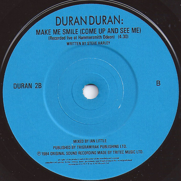 "Make Me Smile (Come Up and See Me)" by Duran Duran; B-side label of "The Reflex" UK vinyl release